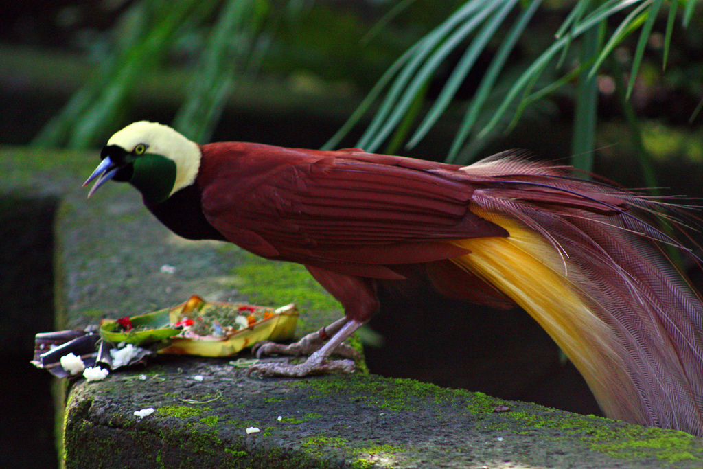 Greater Bird of Paradise (Paradisaea apoda). Male bird of paradise eating offerings at Bali Bird Park.